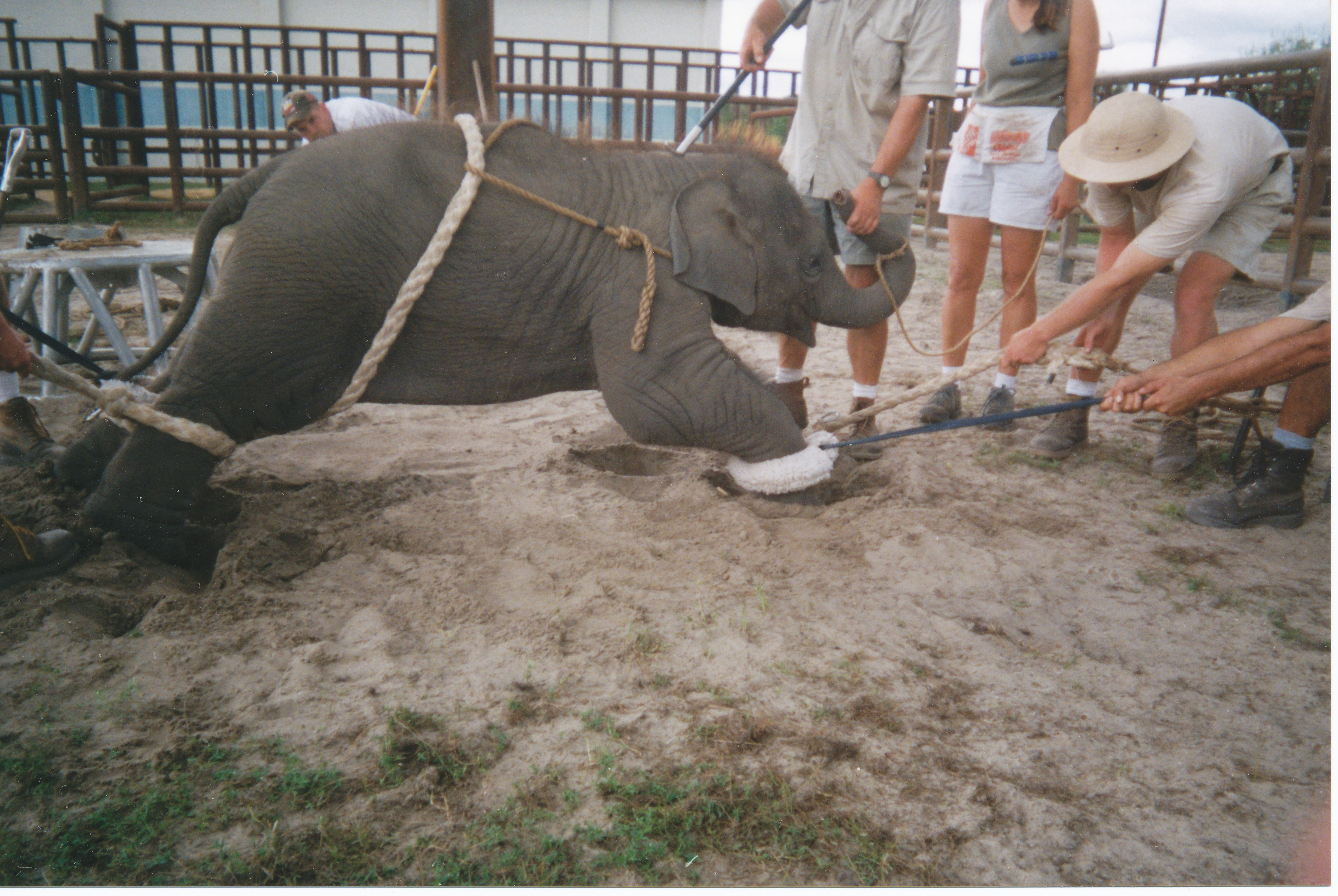 Photograph taken by former Ringling Bros. and Barnum & Bailey Circus trainer Sam Haddock, given to PETA and used in protests against that circus on 15 July 2010.